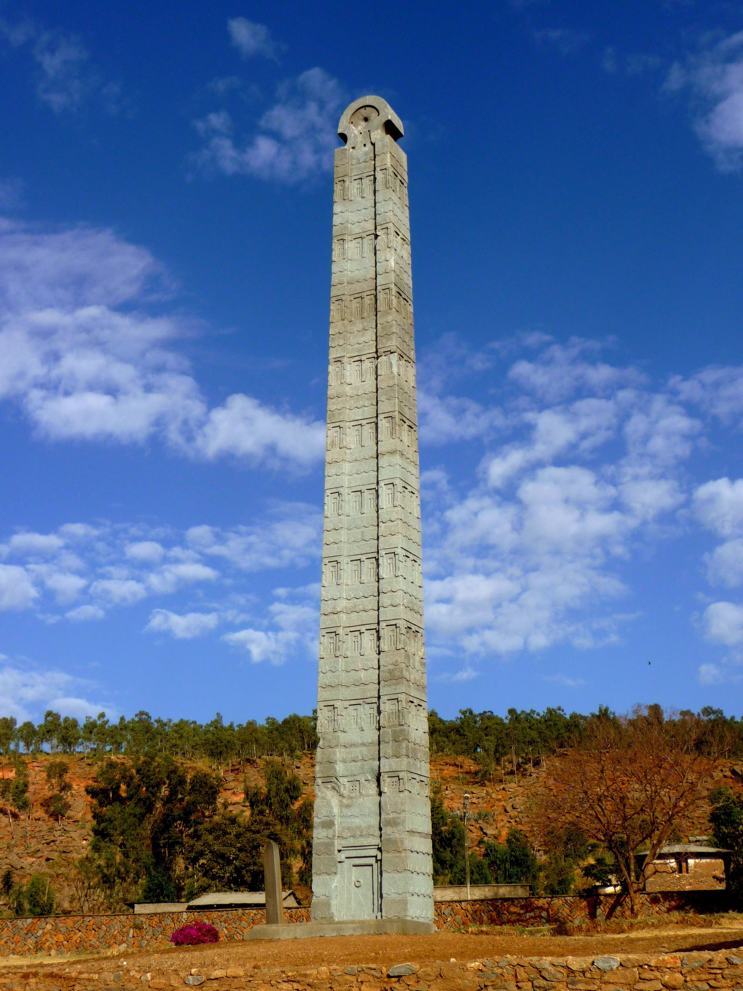 The Rome Stele (known also as the Aksum Obelisk) in Aksum (Tigray Region, Ethiopia).